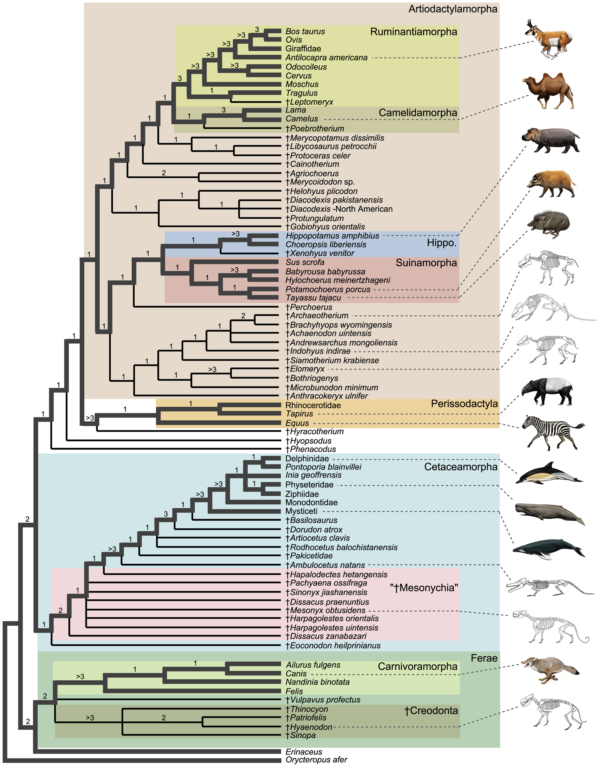 Strict consensus of the 48 minimum length trees for the equally-weighted parsimony analysis of 606 characters observable in fossils (3,722 steps). Note that both Selenodontia (Ruminantia + Camelidae) and Suiformes (Hippopotamidae + Suina) are supported, in contrast to the total evidence analysis (Figure 2). Colored boxes that delimit taxonomic groups are as in Figure 2 (Hippo. = Hippopotamidamorpha). Illustrations are by C. Buell and L. Betti-Nash.